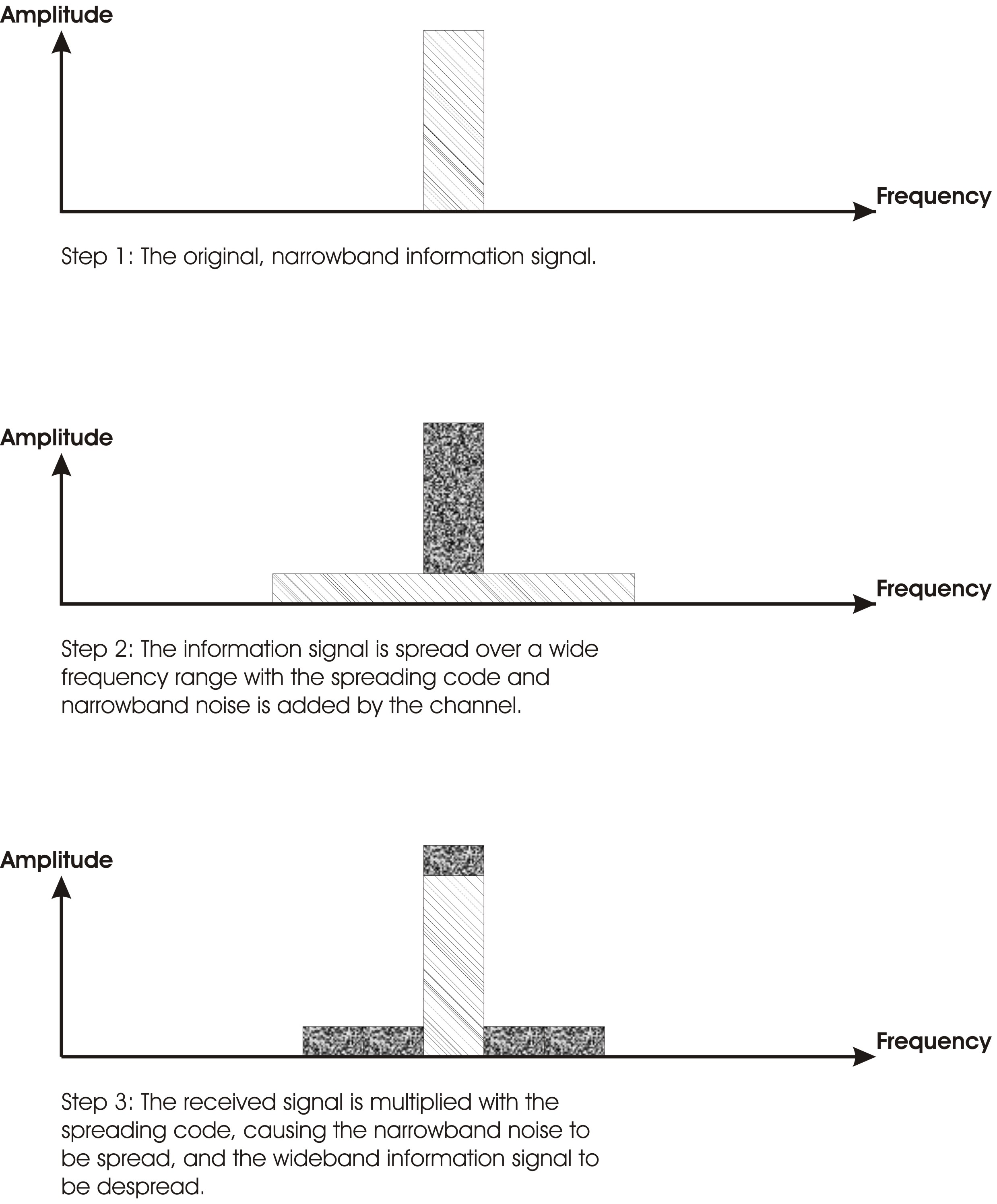 Illustration of the immunity of a spread-spectrum system against narrowband interference.